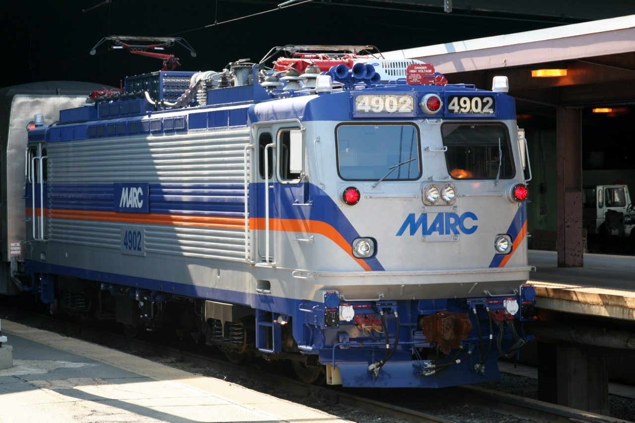 MARC AEM-7 #4902 at Washington D.C.'s Union Station